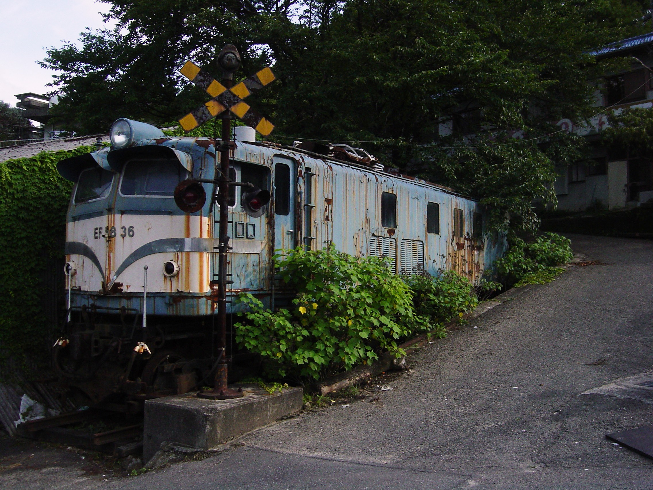 Preserved JNR Class EF58 electric locomotive EF58 36 in Hiroshima